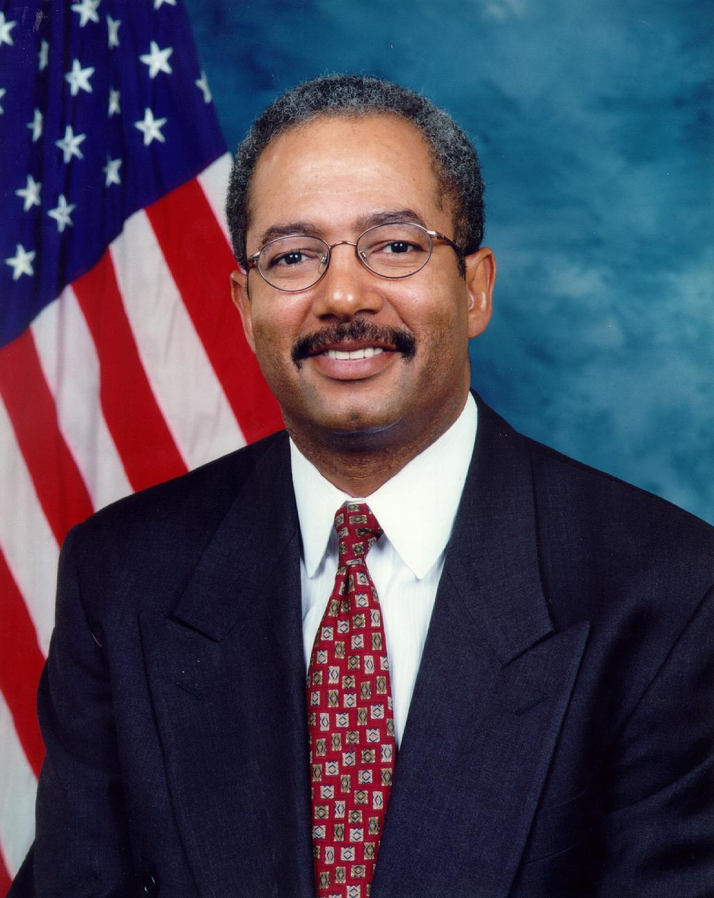 Official House Photo of Congressman Chaka Fattah, from Pennsylvania's 2nd district